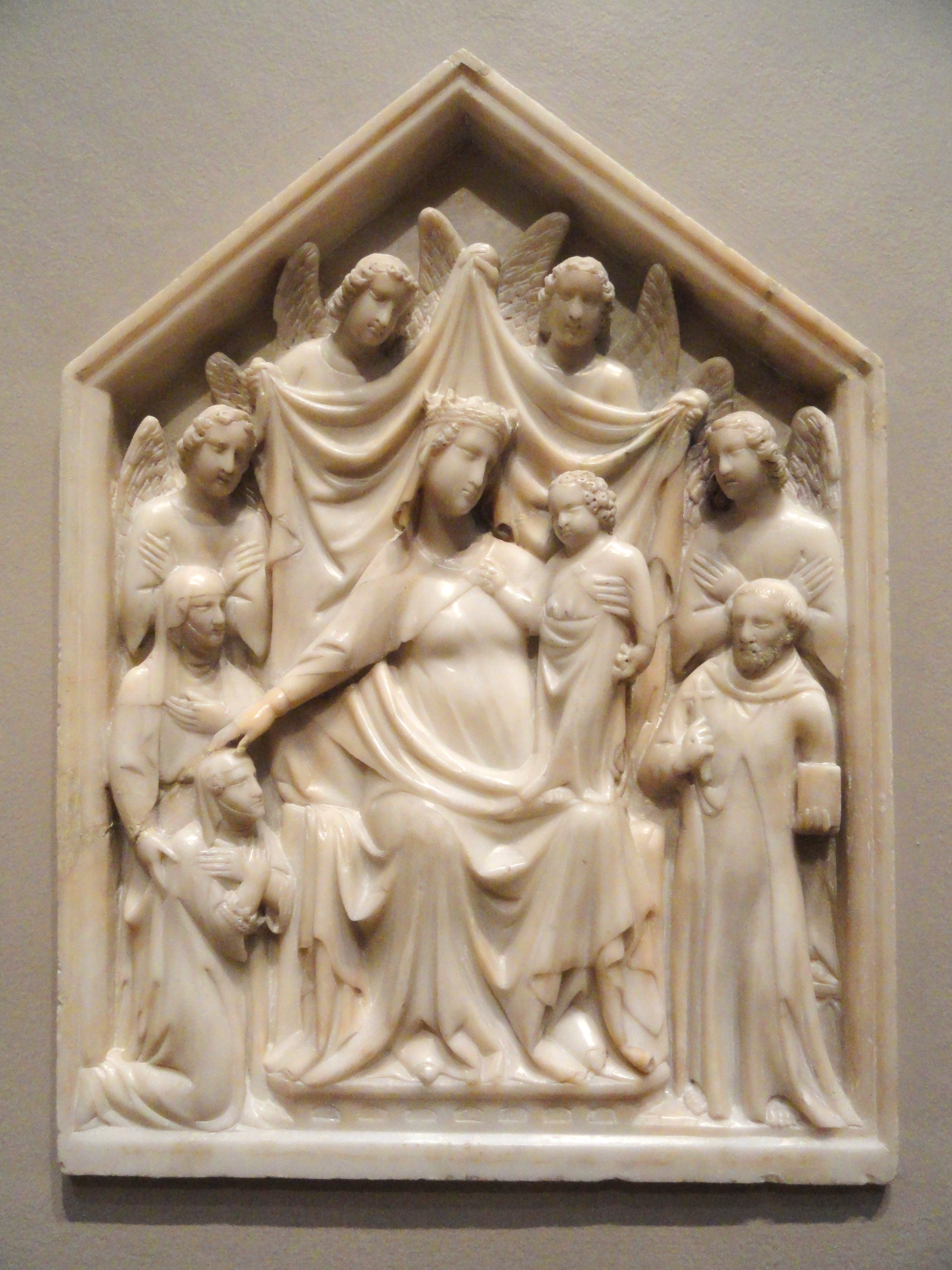 Madonna and Child with Queen Sancia, Saints, and Angels, by Tino di Camaino, c. 1335, marble - National Gallery of Art, Washington, DC, USA. This work is in the public domain because the artist died more than 70 years ago.